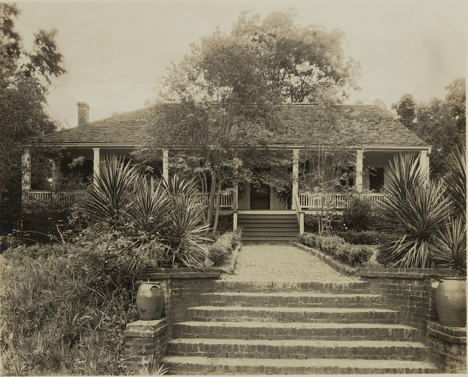 Title Hope Farm, Natchez, Adams County, Mississippi Contributor Names Johnston, Frances Benjamin, 1864-1952, photographer Created / Published 1938. Subject Headings - United States--Mississippi--Adams County--Natchez - Urns. - Stairways. - Gardens. - Brickwork. - Houses. - Mississippi--Adams County--Natchez Format Headings Photographic prints. Notes - Title from photographer's inventory. - Original name Hope Villa. Built by Carlos de Grandpre. Simple Spanish provincial architecture. Mary Routh Ellis sold the farm to Eli Montgomery in 1833, and for 90 years it remained in Montgomery family. - Building/structure dates: ca. 1789. - Related name: Mr. Balfour Miller. - From verso: Spain and England met here. Hope Farm, charming in its simplicity, has a section built in 1775, when the English owned the Natchez area. Then, in 1790, the Spanish Governor Carlos de Grandpre added the gallery with its ornamented, sturdy columns. The building shows a merger of two different elements of building, and of two varying cultures. - Corresponding Carnegie Survey of the Architecture of the South neg. no. 1040. Library has no record of having this neg. - Gift; Anne E. Peterson; 2011; (DLC/PP-2011:206) - Forms part of: Carnegie Survey of the Architecture of the South (Library of Congress). Medium 1 photographic print. Call Number/Physical Location LOT 11838-1 [item] [P&P] Repository Library of Congress Prints and Photographs Division Washington, D.C. 20540 USA Digital Id ppmsca 32359 //hdl.loc.gov/loc.pnp/ppmsca.32359 Control Number csas201207187 Reproduction Number LC-DIG-ppmsca-32359 (digital file from photograph) Rights Advisory No known restrictions on publication. Online Format image Description 1 photographic print.